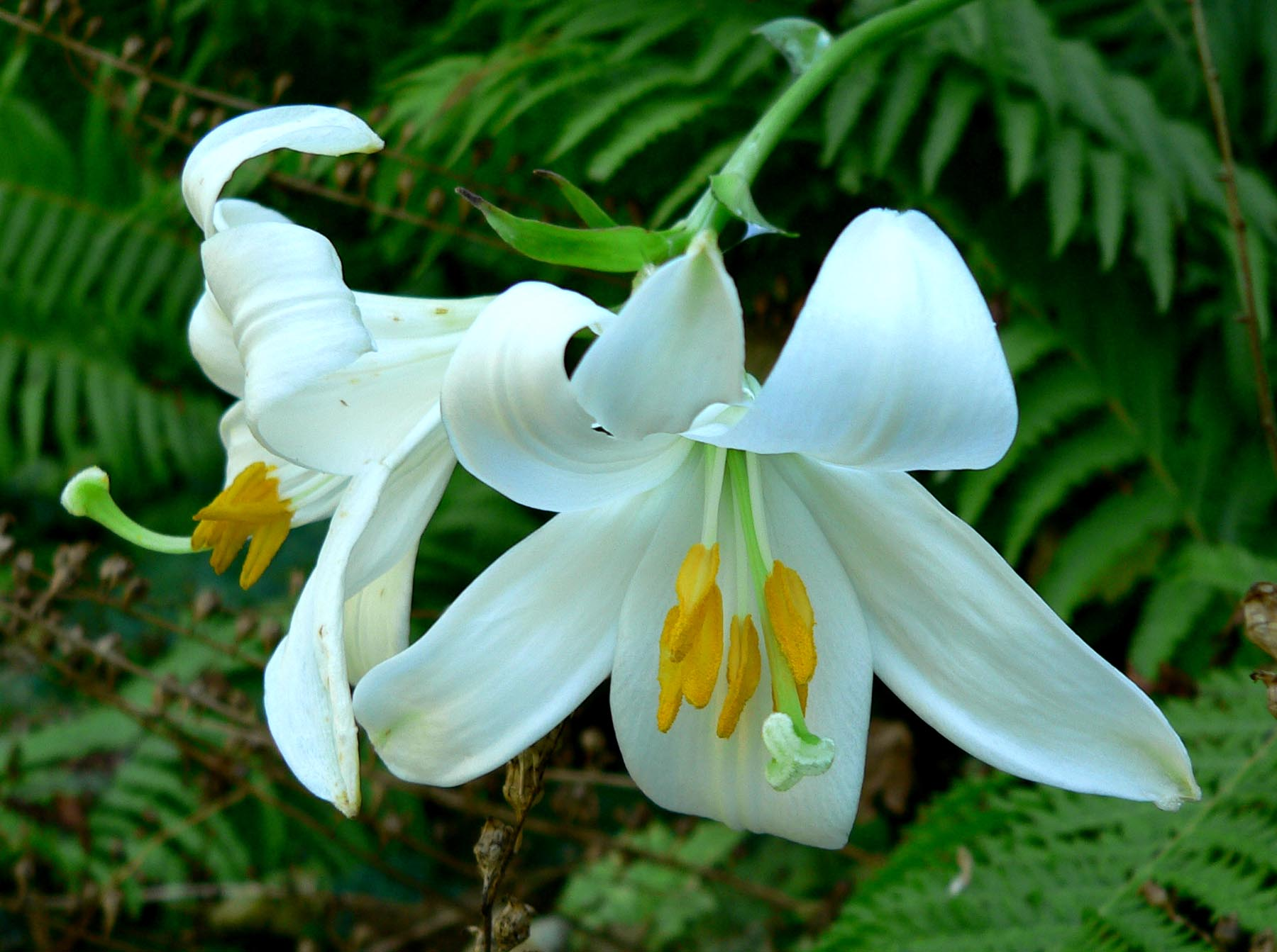 Photo of Lilium candidum at VanDusen Botanical Garden